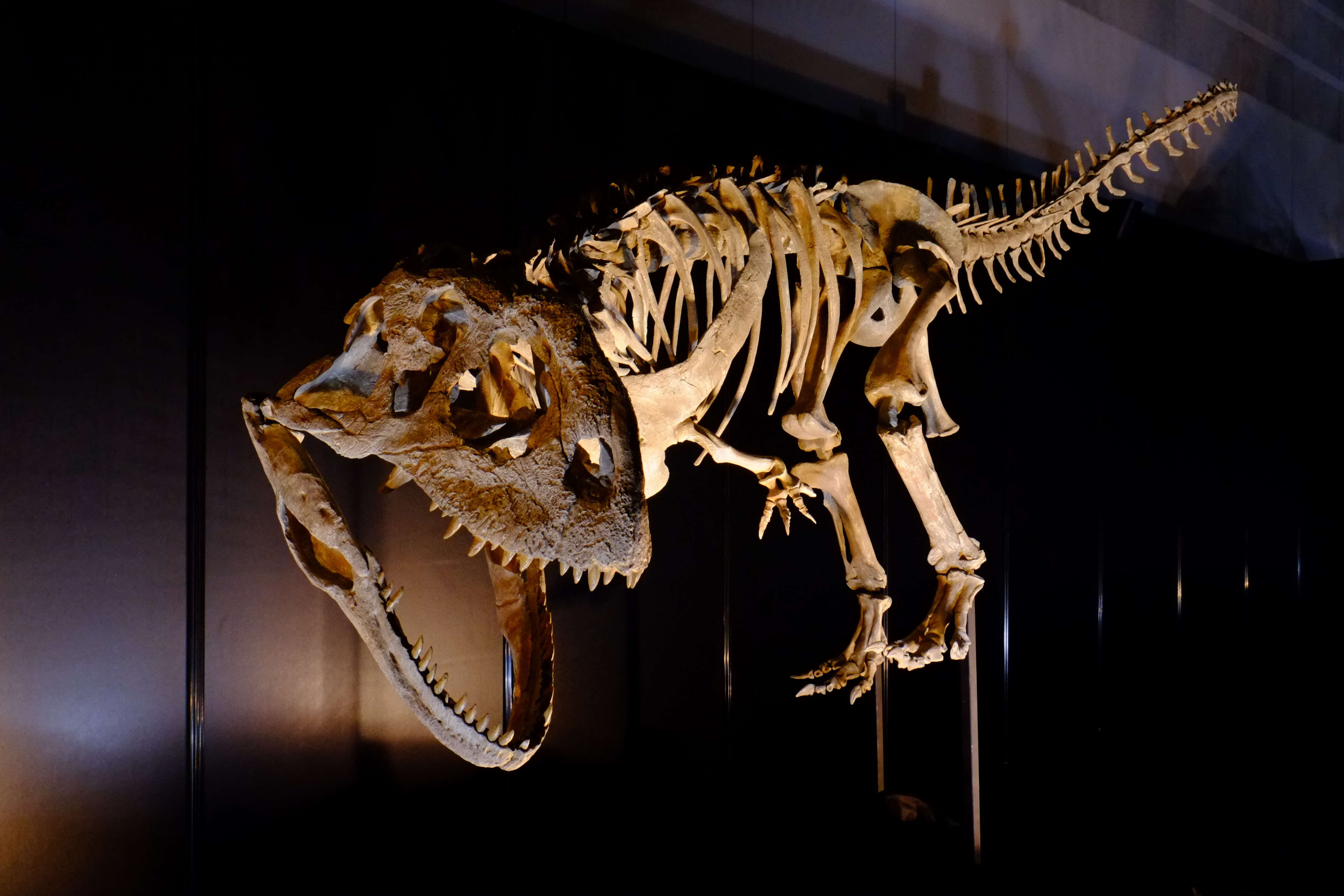 マジュンガサウルス！アフリカ大陸の東側にあるマダガスカル島のマジュンガ州で発見された事からその名がつけられた。